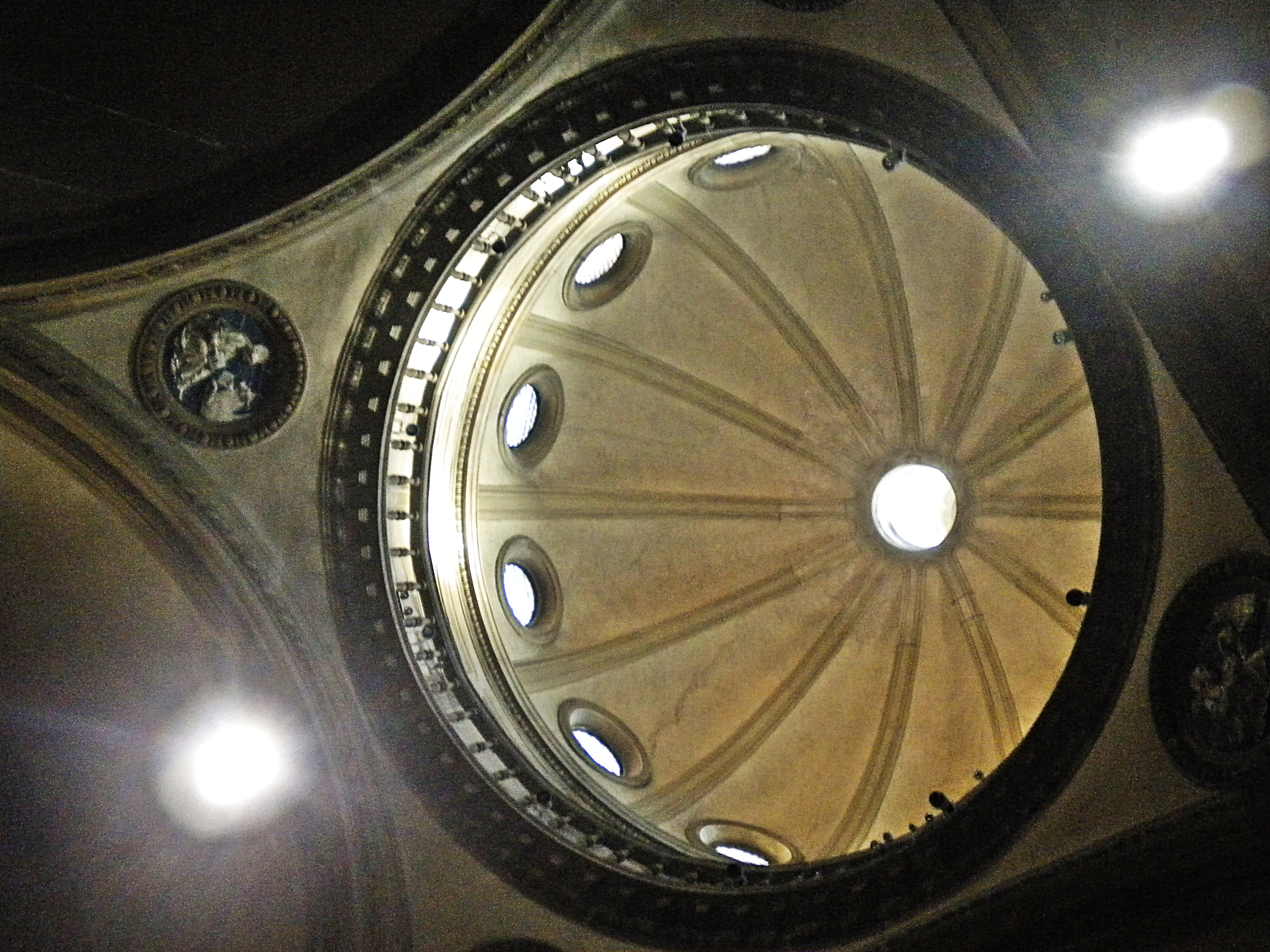 internal dome